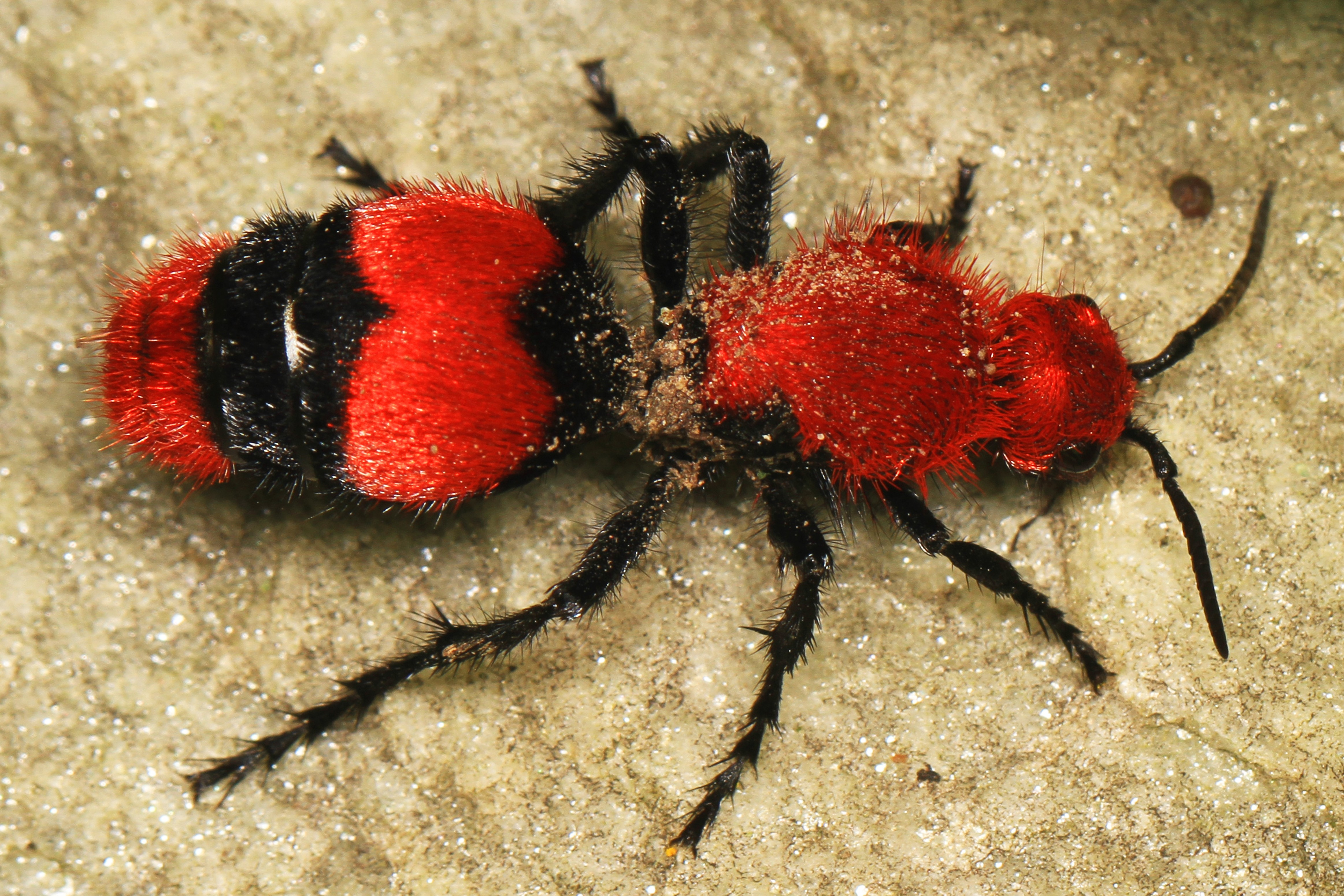 Female Dasymutilla occidentalis.